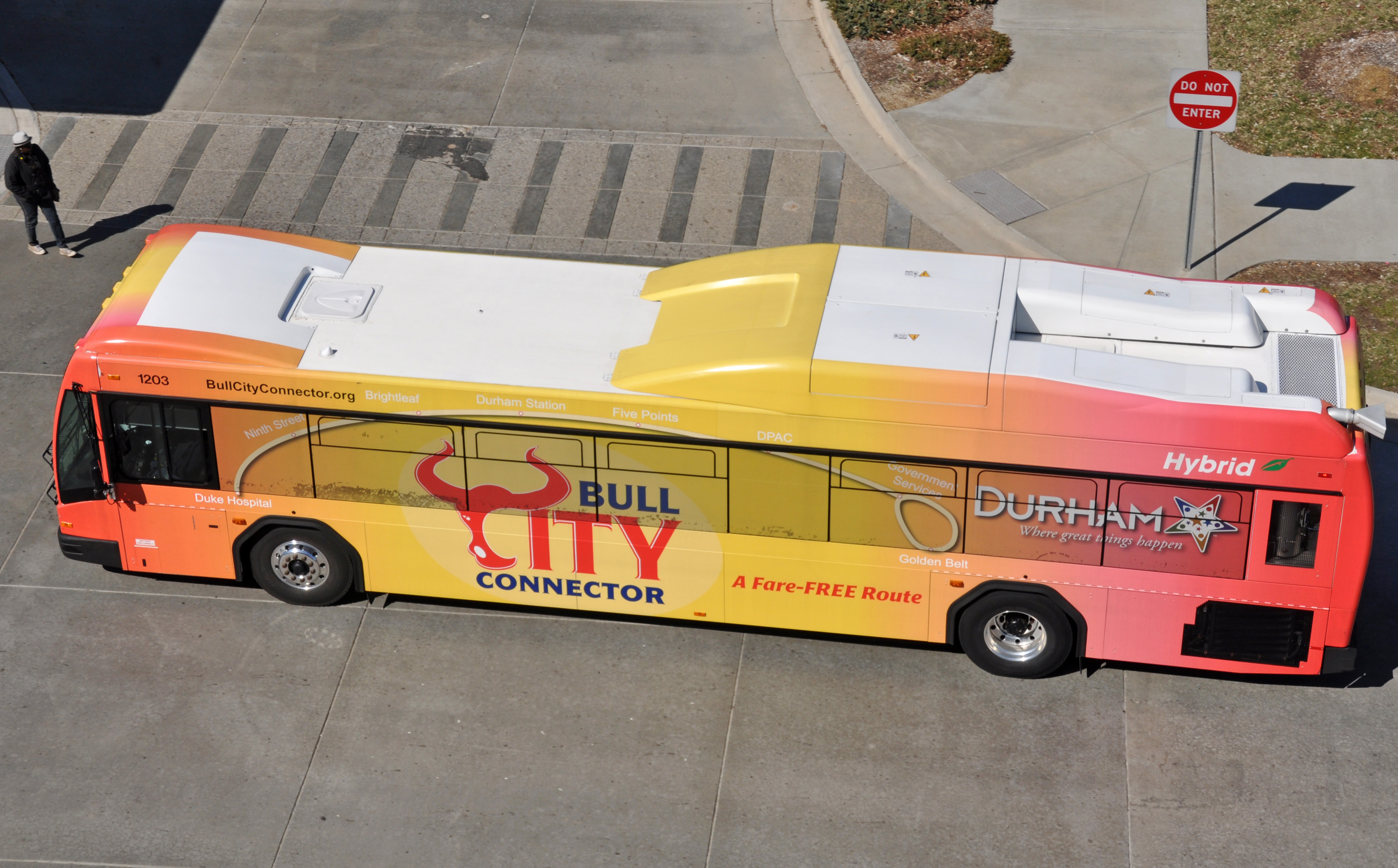 Bull City Connector